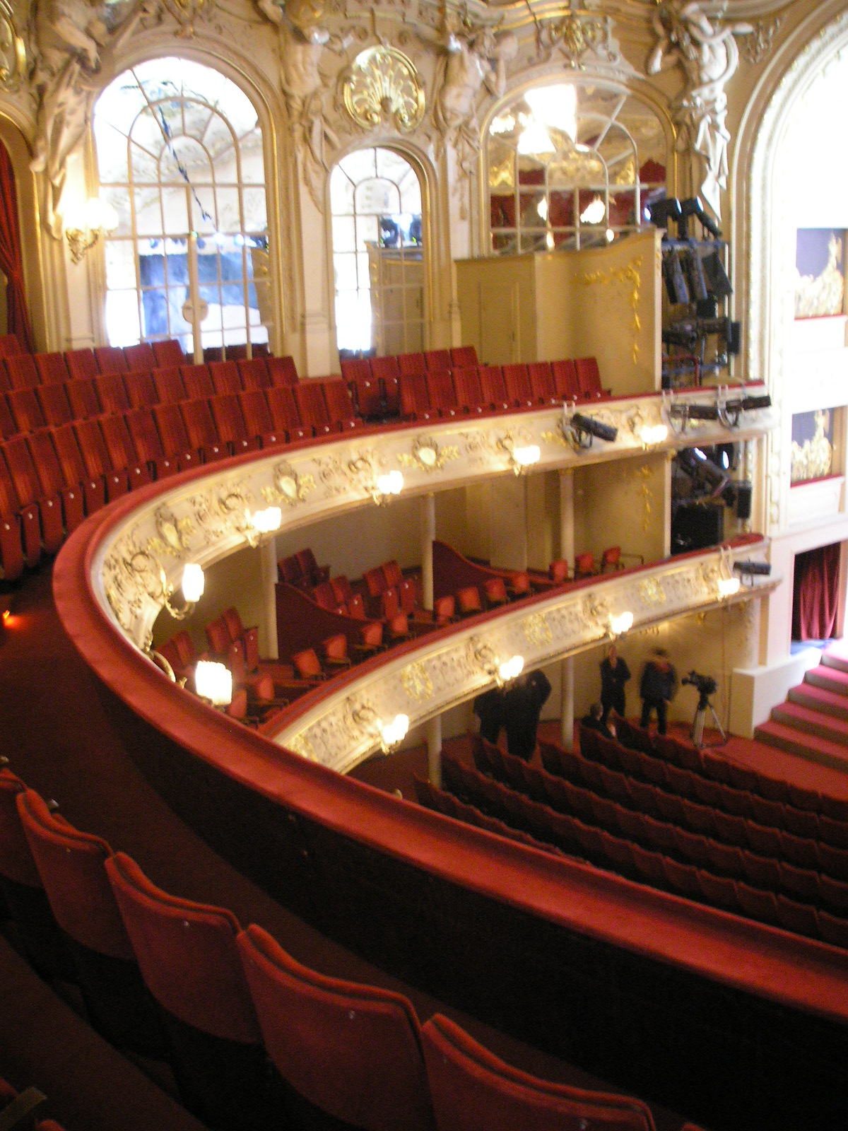 Interior of the Komische Oper Berlin.